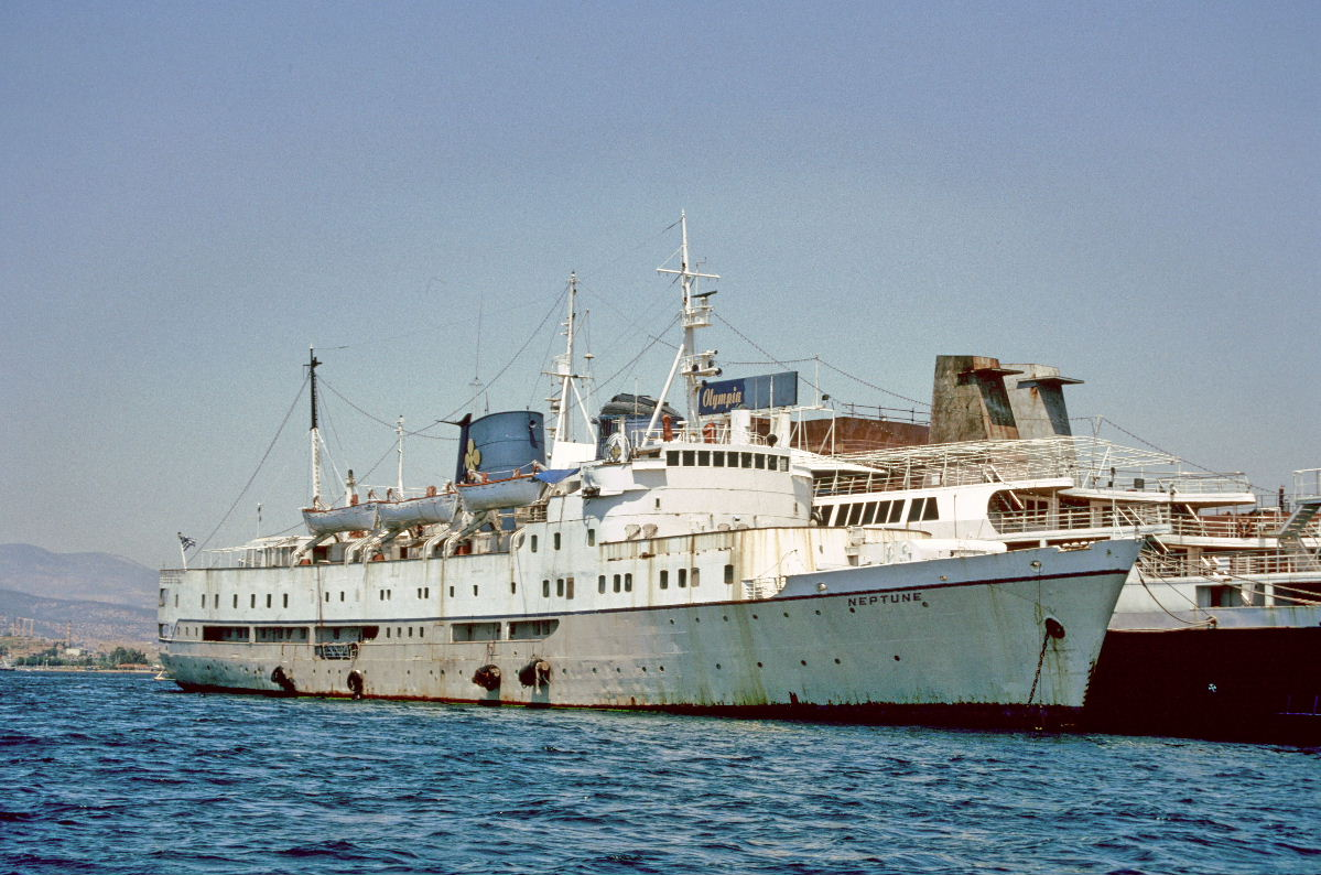 The cruise ship Neptune in Eleusis in 2001.